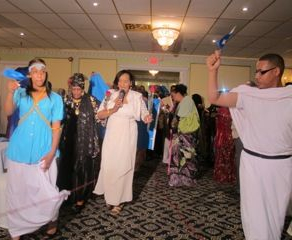 Somali singer Saado Ali Warsame performing at an SRAP event in her honour in Toronto (2011).